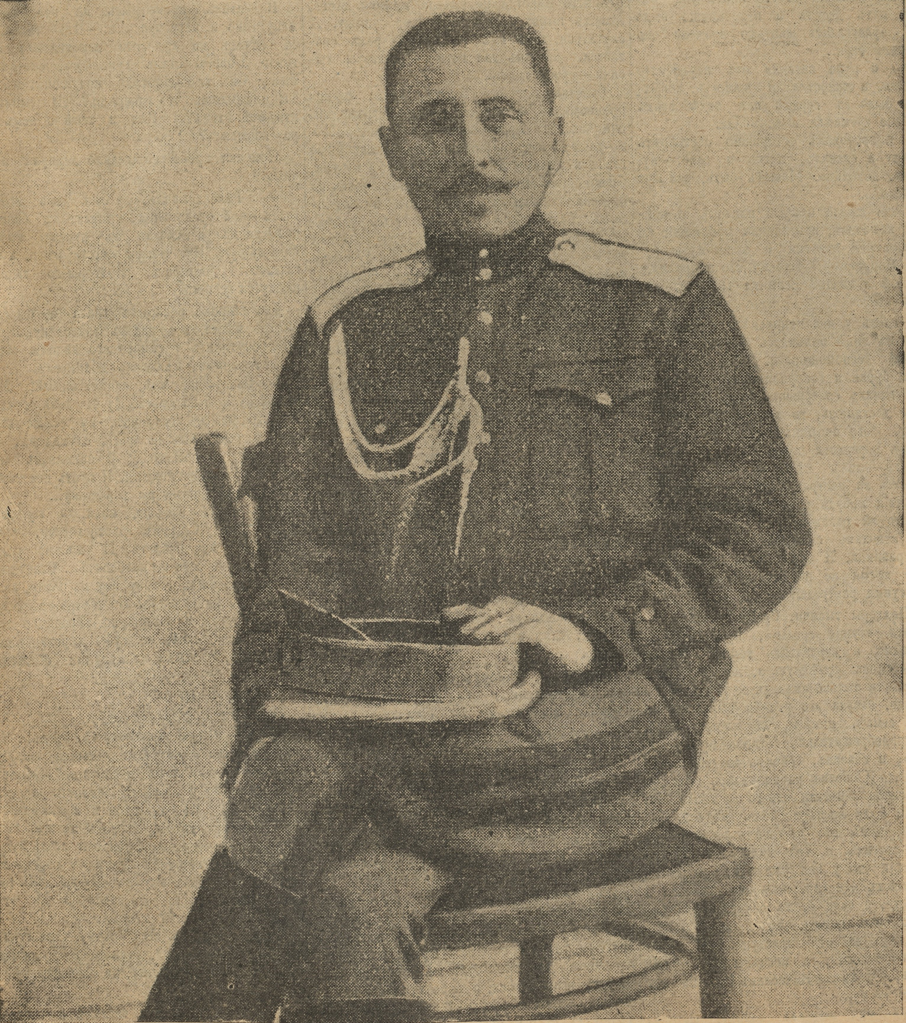 Photo of Vladimir Cheremisov, Russian general